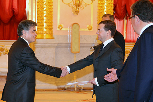 THE KREMLIN, MOSCOW. Presentation ceremony of foreign ambassadors’ letters of credentials. Ambassador of the Republic of Uzbekistan Ilhom Nematov presents his letter of credentials to the President.